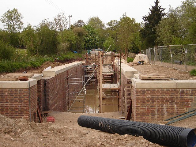 Loxwood Lock under construction. This new lock is required to lower the water level of a 400m section of the canal to Brewhurst Lock. This reduction in level is necessary in order to carry the restored canal through a tunnel under the B2133.